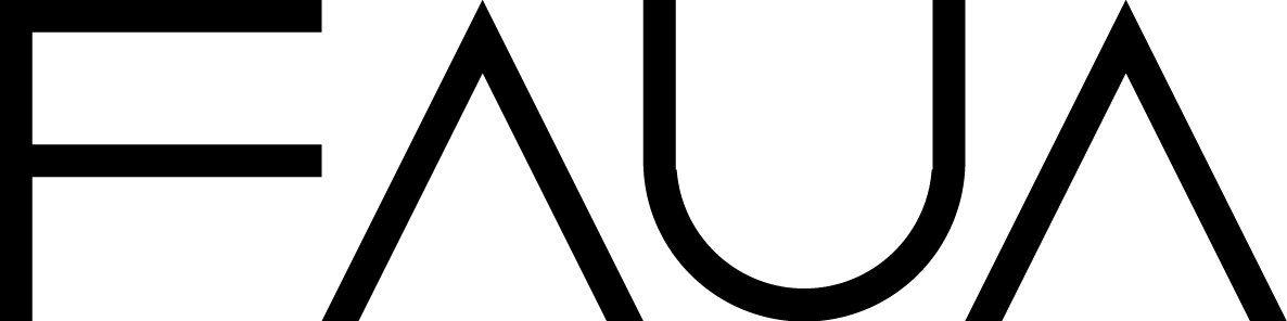 Official logotype of the Faculty of Architecture, Urbanism and Arts of the National University of Engineering of Lima, Perú.